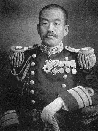 Mitsukane Tsuchiya